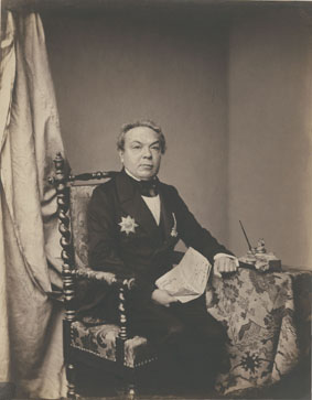 The bavarian minister Friedrich von Ringelmann (1803-1870)